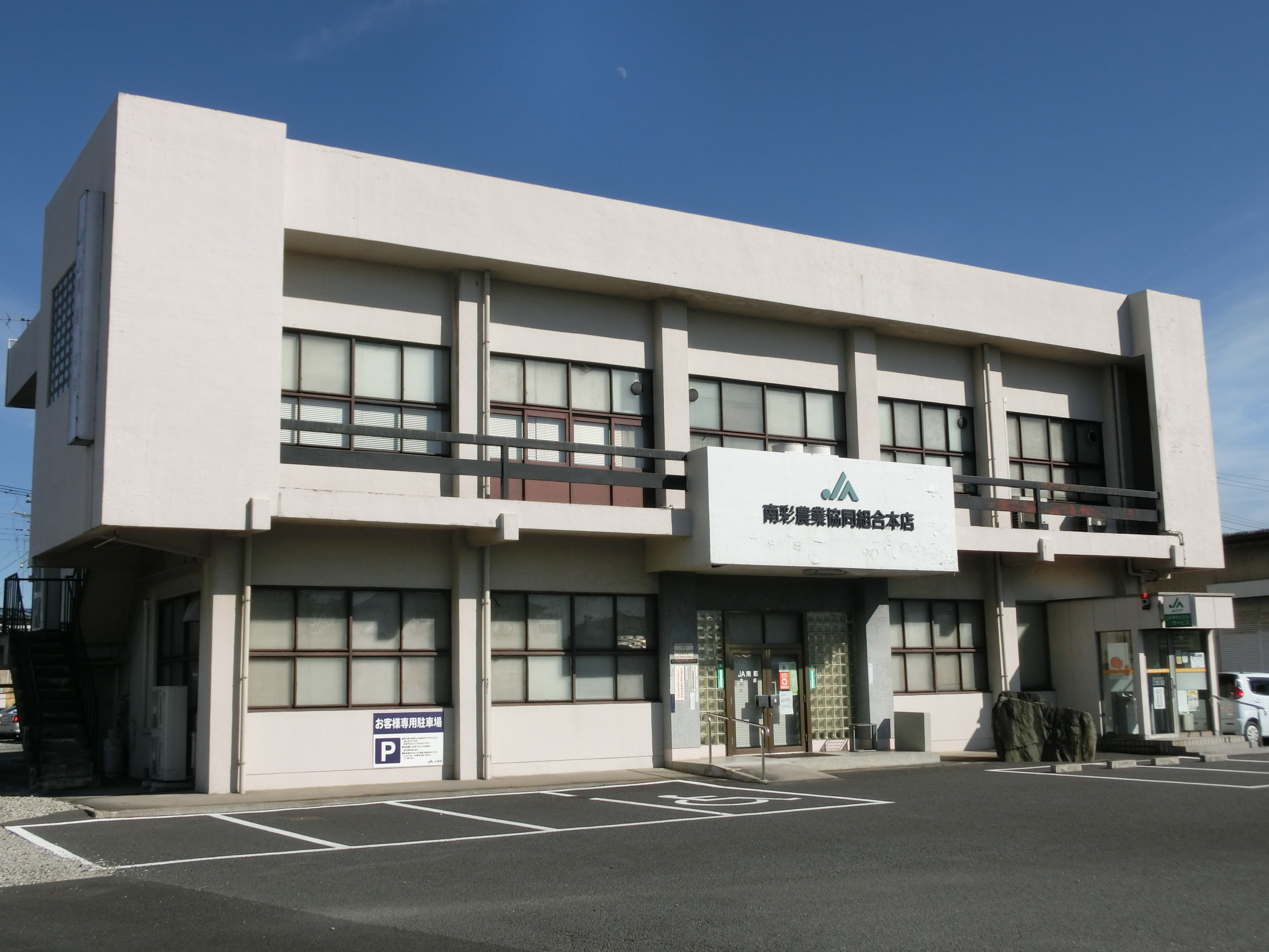 JA Nansai Headquarters